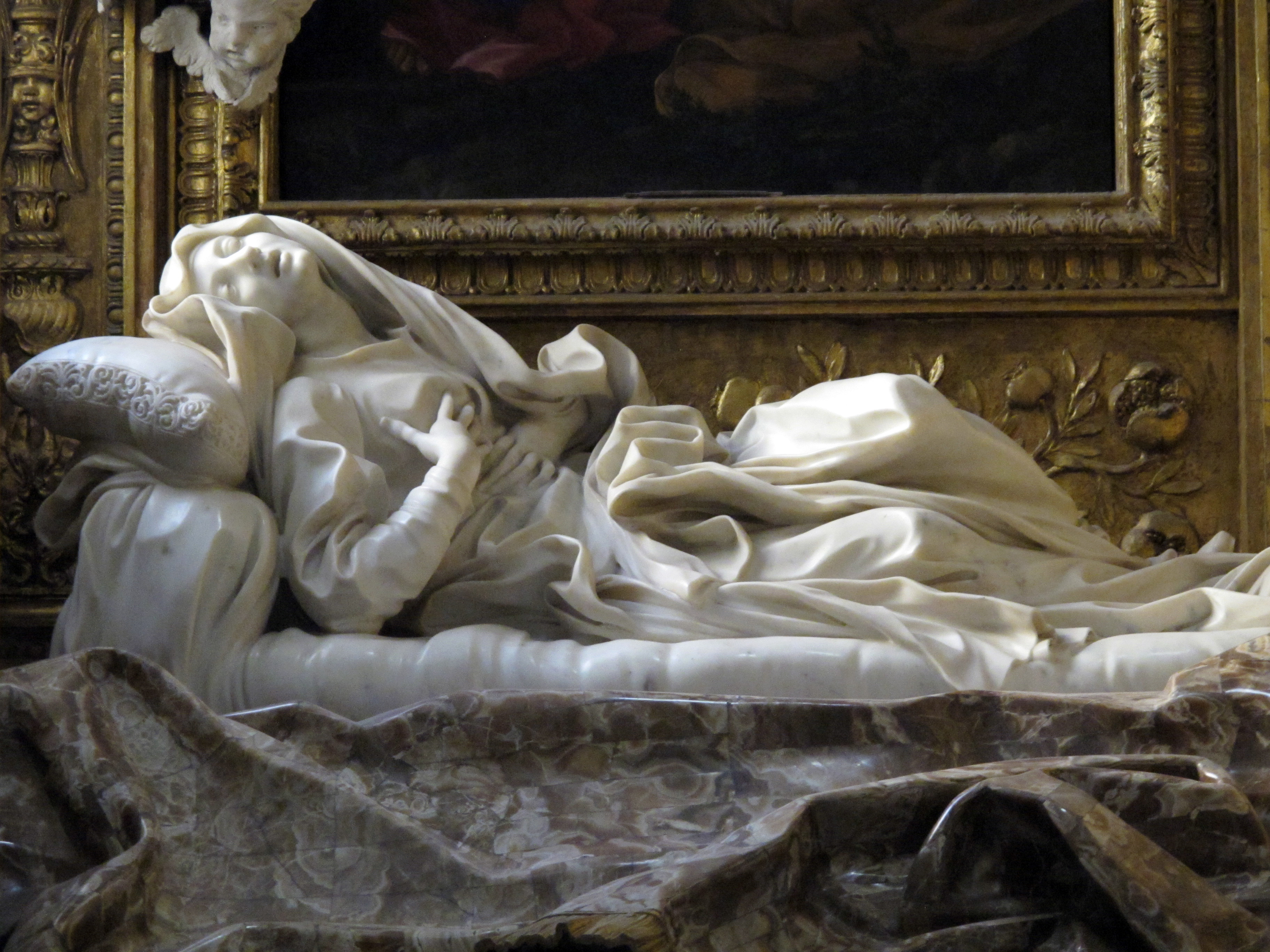 Blessed Ludovica Albertoni by Gian Lorenzo Bernini, Altieri Chapel, San Francesco a Ripa, Rome